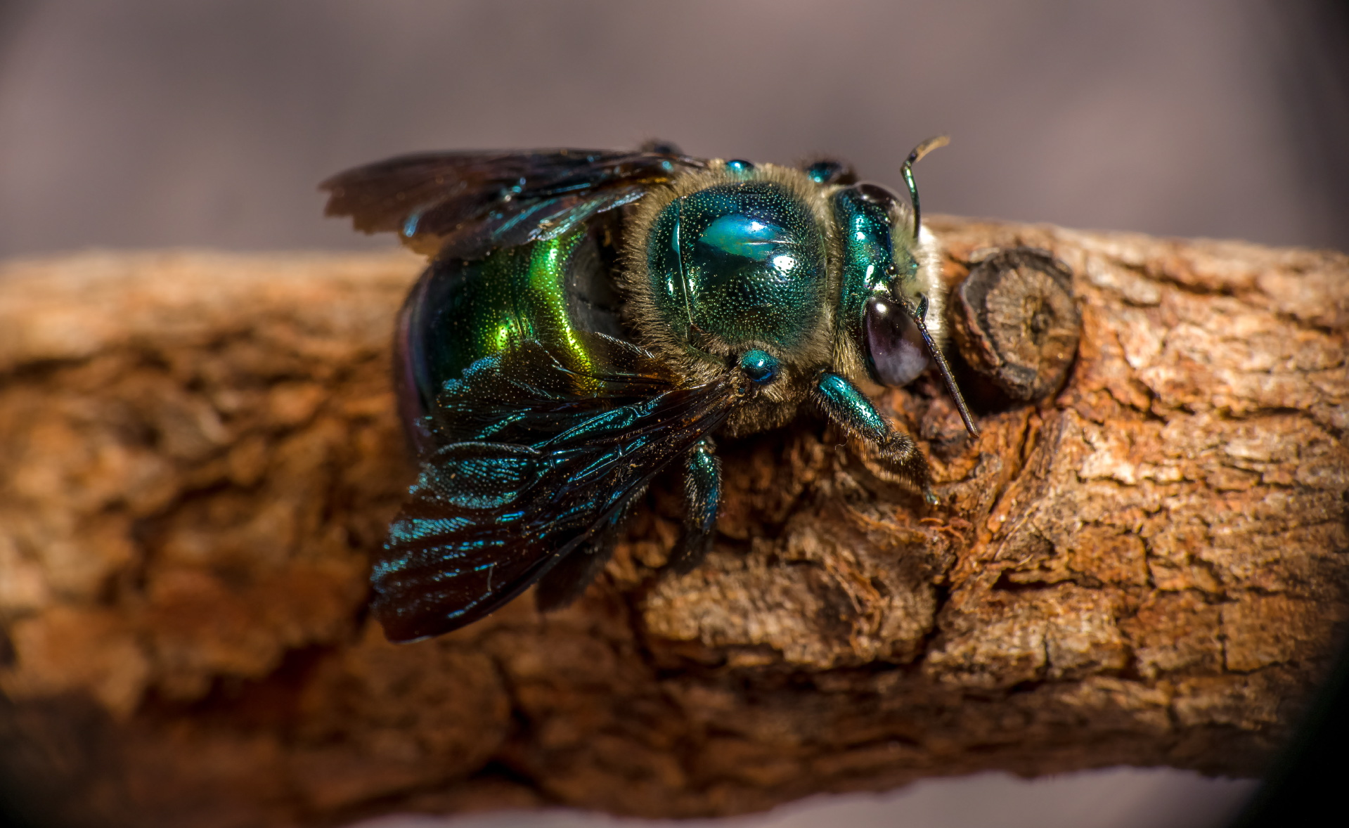 Green Carpenter Bee collected by scientists during March 2017 Cape York Bush Blitz Australian New Species Discovery, a partnership Program between the Australian Government, BHP Billiton Sustainable Communities and Earthwatch